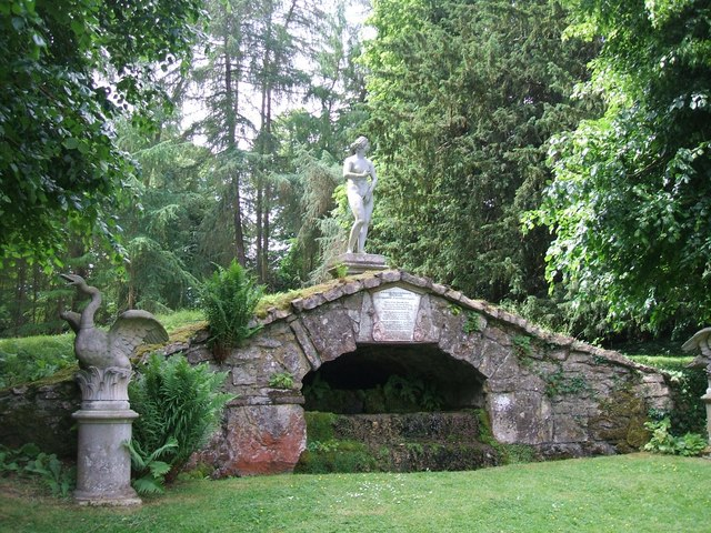 Rousham Gardens: Venus The landscaped gardens at Rousham House were laid out by William Kent from 1738. They are the most complete surviving example of his landscape work. Although not the earliest 'picturesque' English landscape garden, Rousham was much visited and very influential. In contrast to the enclosed formal gardens of the 17th century it is an informal arrangement of winding paths on a north-facing slope down to the strangely angular course of the River Cherwell, the 'genius of the place': a difficult site which Kent turned to advantage. Statues and buildings of a classical flavour are revealed as events and focal points in an all-green setting of trees and shrubs. Kent made this compact garden seem larger than it is by creating views to features beyond it: the church, the mediaeval Heyford Bridge, the corn mill and the meadow across the river and, up on the hill, a bogus ruin, an example of an 'eyecatcher'. See 77685 in SP4826 for an excellent rear view by Jon S. Venus stands demurely at the head of Venus's Vale, above a former cascade.